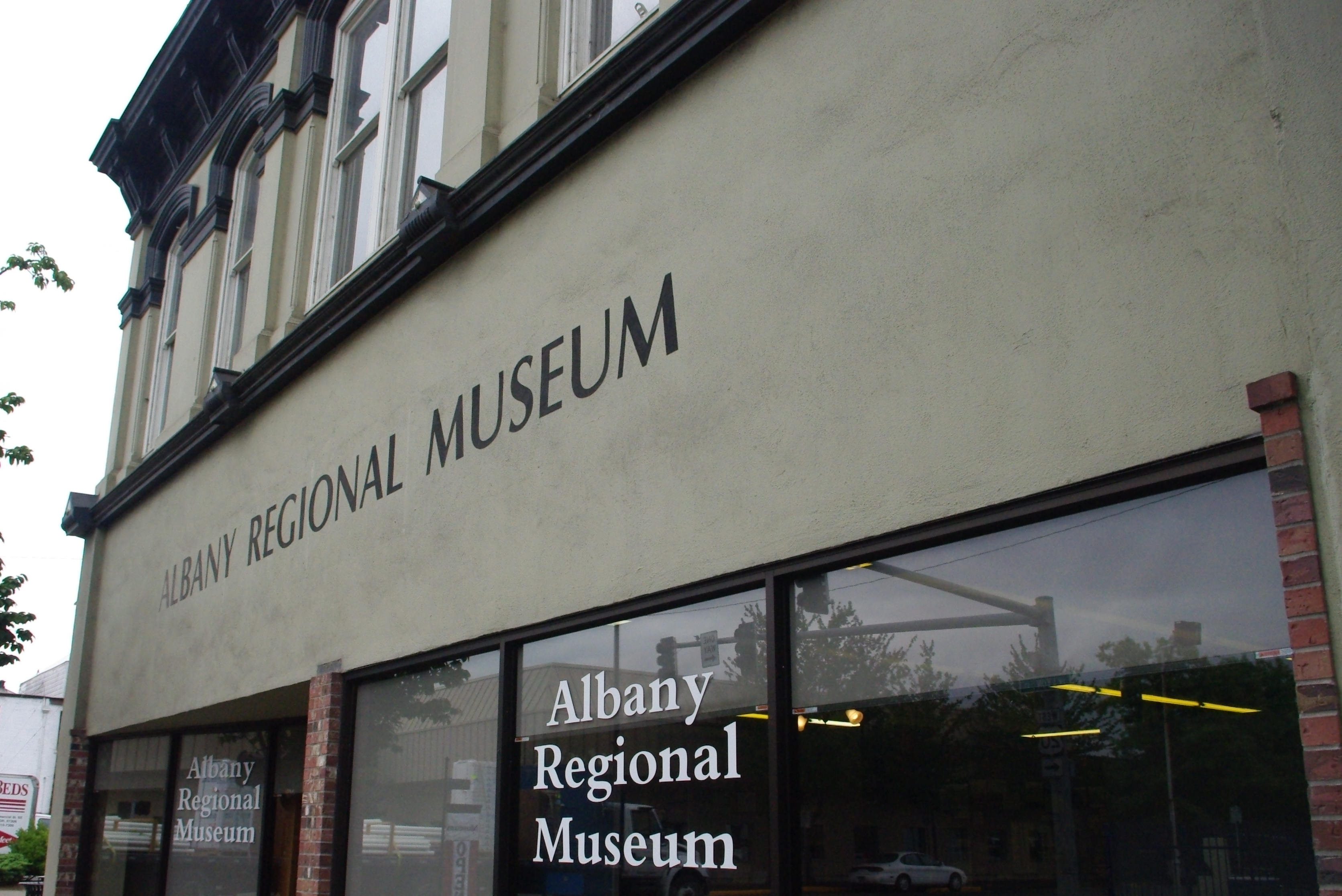 Museum in Albany, Oregon, USA.